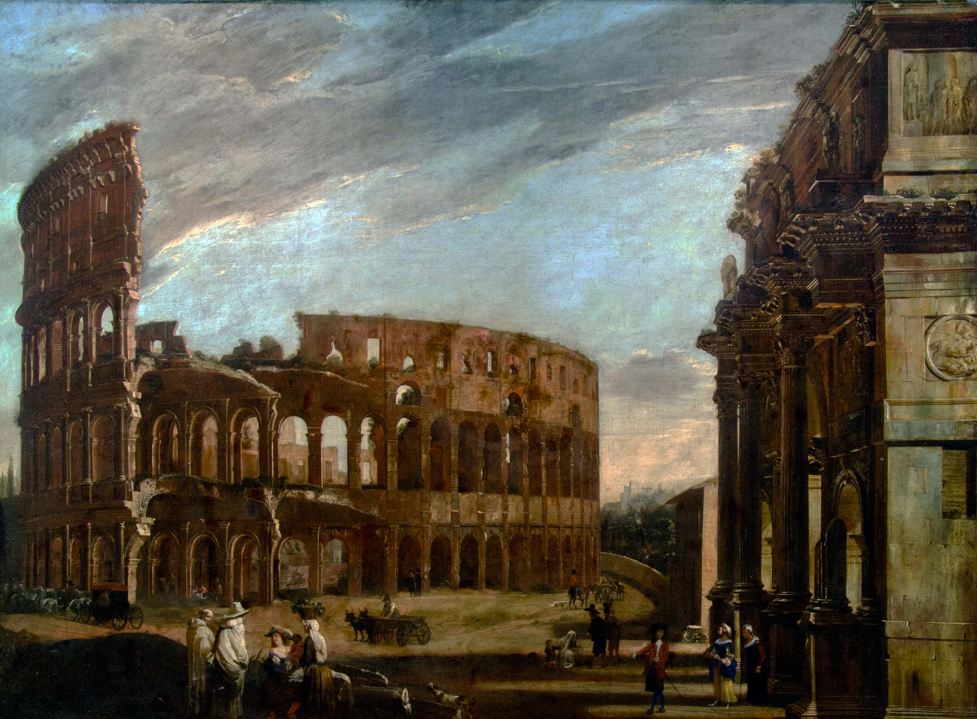 Colosseum and Arch of Constantinetitle QS:P1476,en:"Colosseum and Arch of Constantine" label QS:Len,"Colosseum and Arch of Constantine"